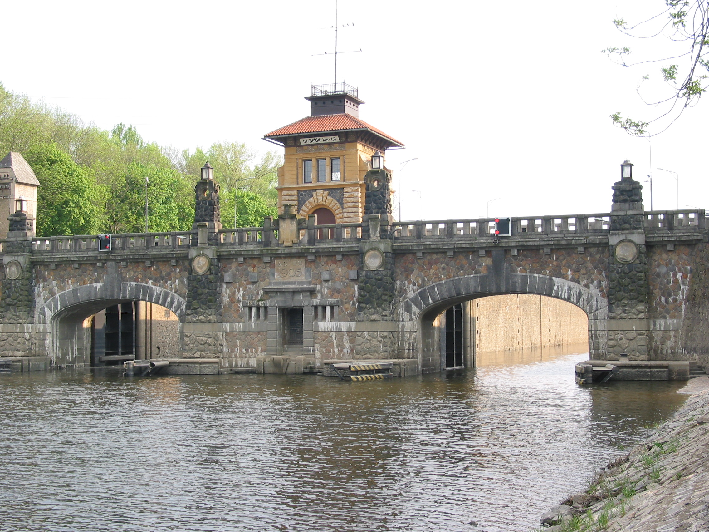 Hořín Lock on Vltava Lateral Canal near Mělník, Czech Republic.